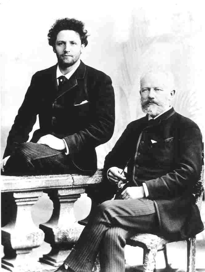 Anatoli Brandukov (L), a Russian cellist, with Pyotr Tchaikovsky.